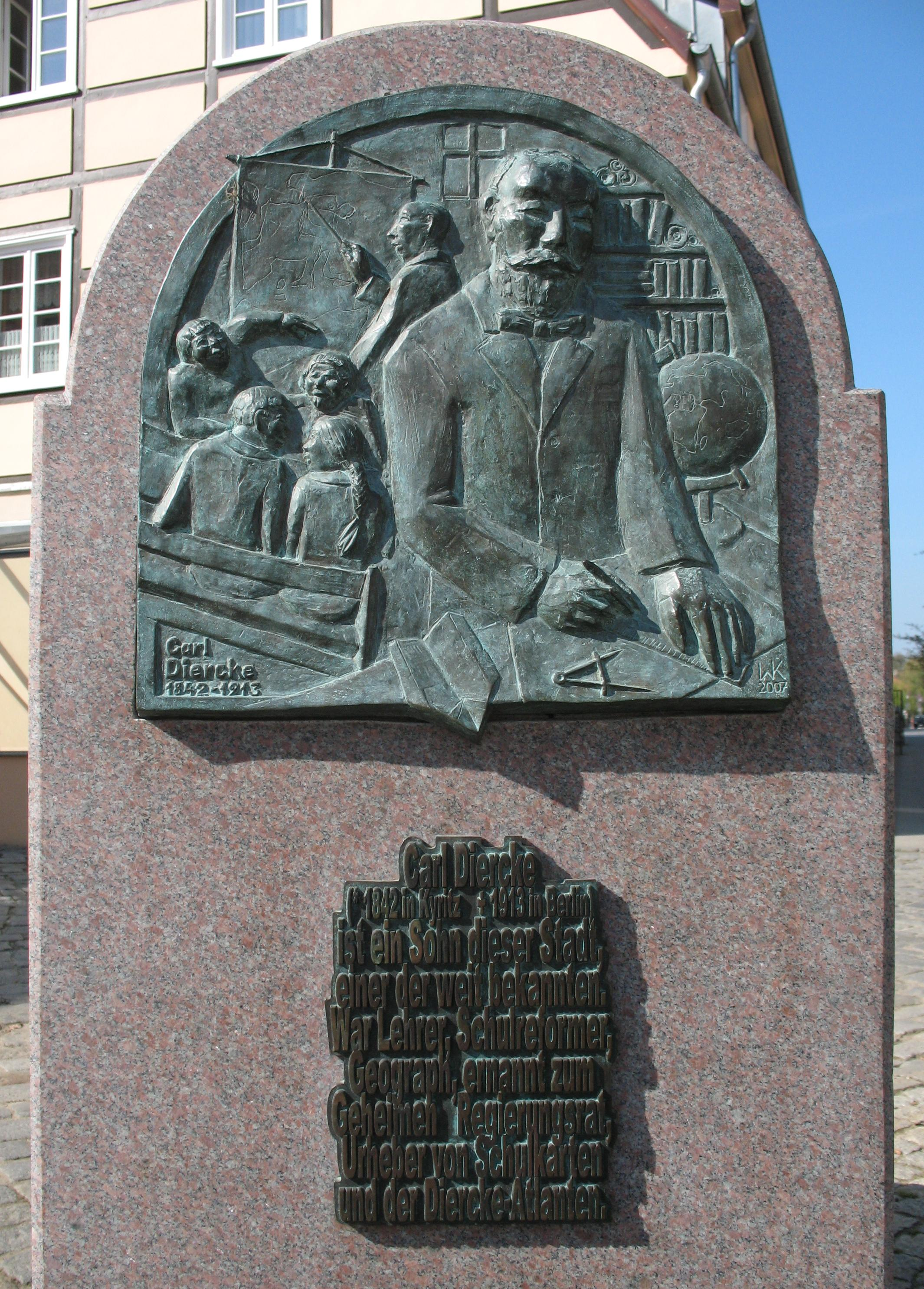 Fountain by Jan Witte-Kropius in Kyritz in Brandenburg, Germany